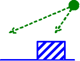 An illustration of step coverage in Evaporation.